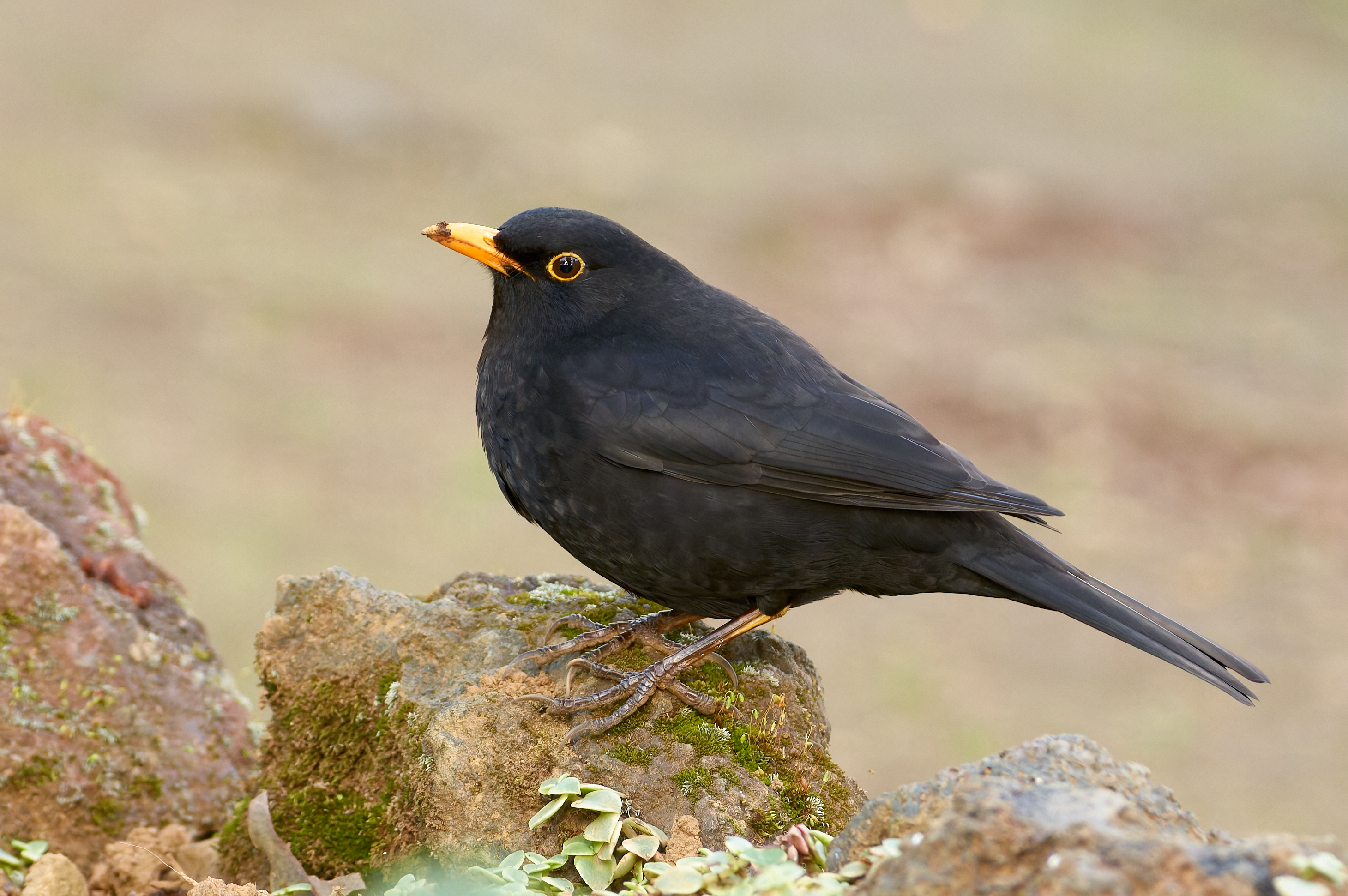 Common blackbird, Male, Subspecies T. m. azorensis on the Island of Terceira